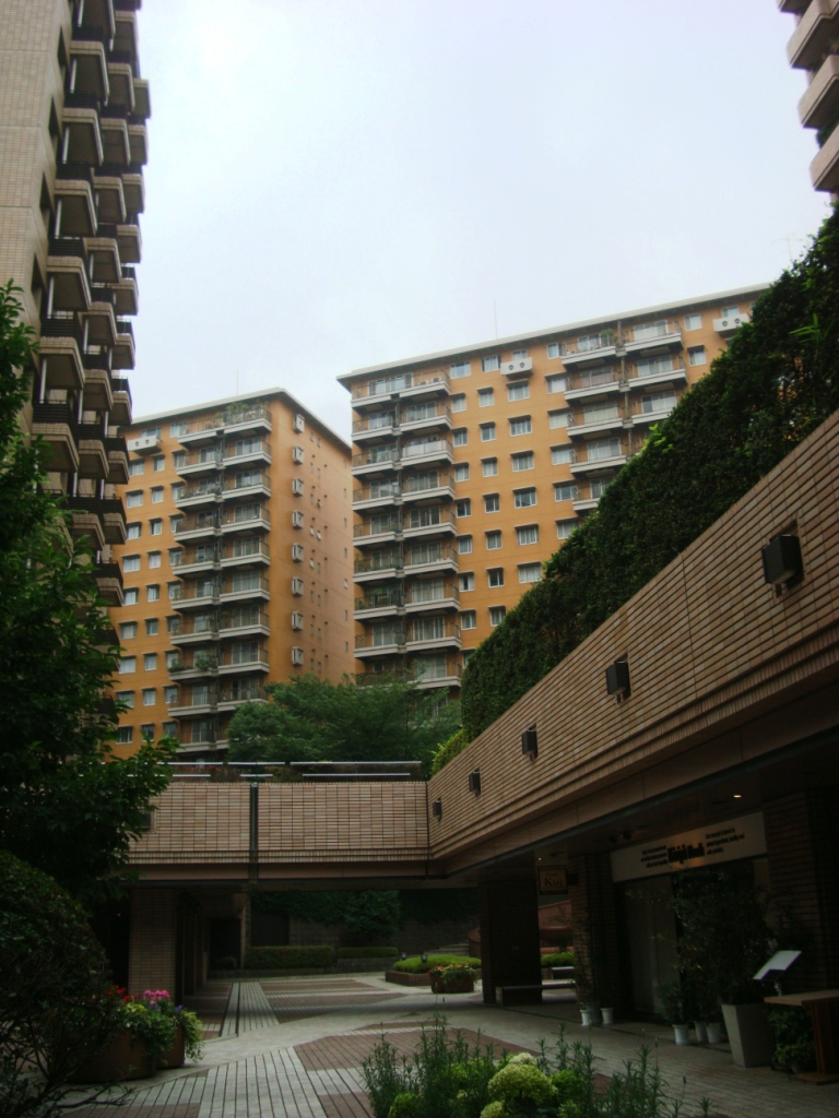 Hiroo Garden Hills complex, Shibuya city, Tokyo